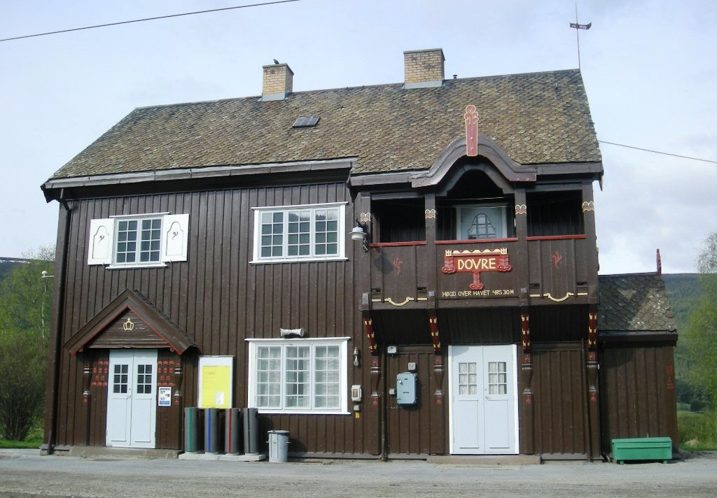 Dovre station on the Dovre line (Oppland, Norway)